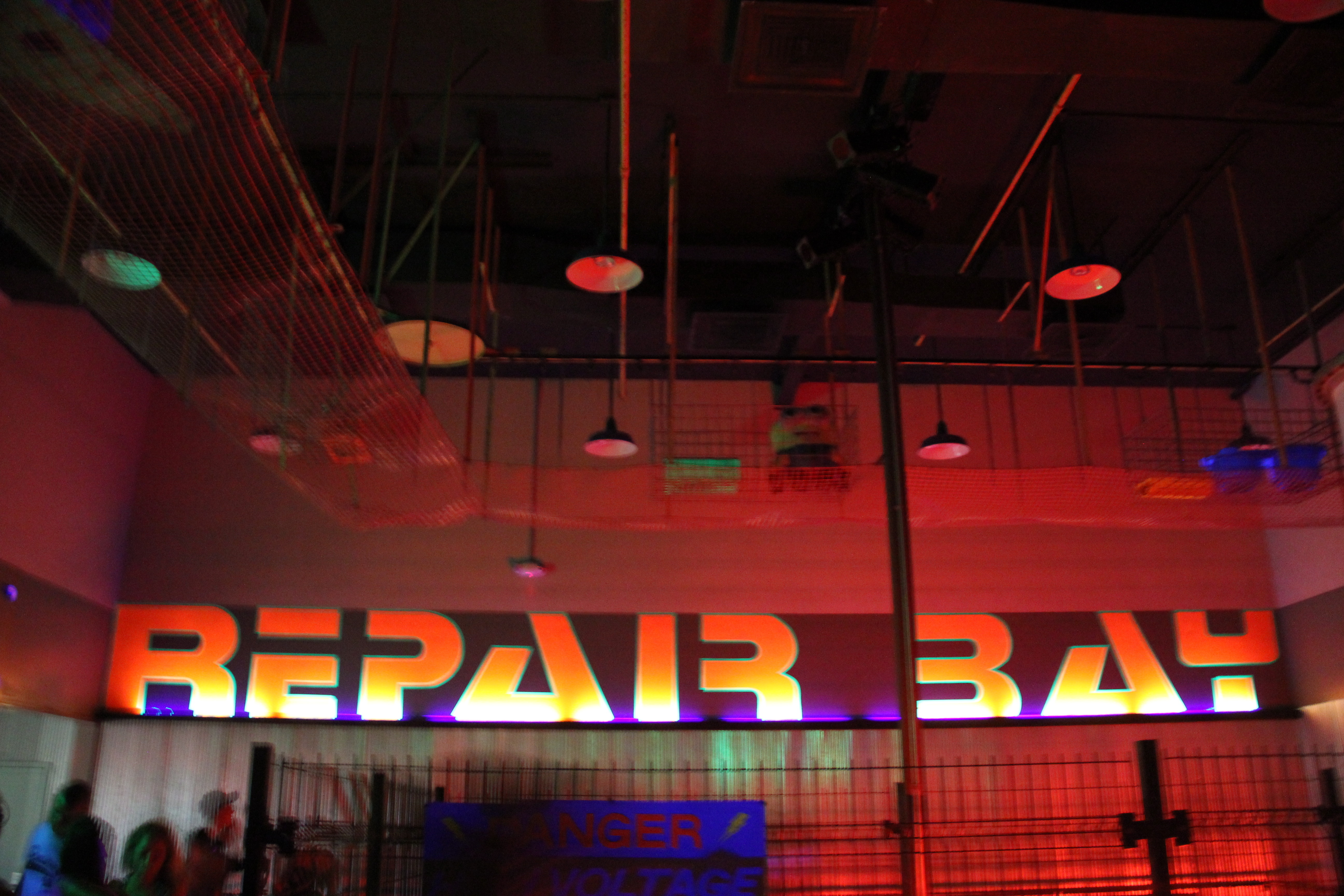 Inside the Repair Bay of Disaster Transport at Cedar Point.